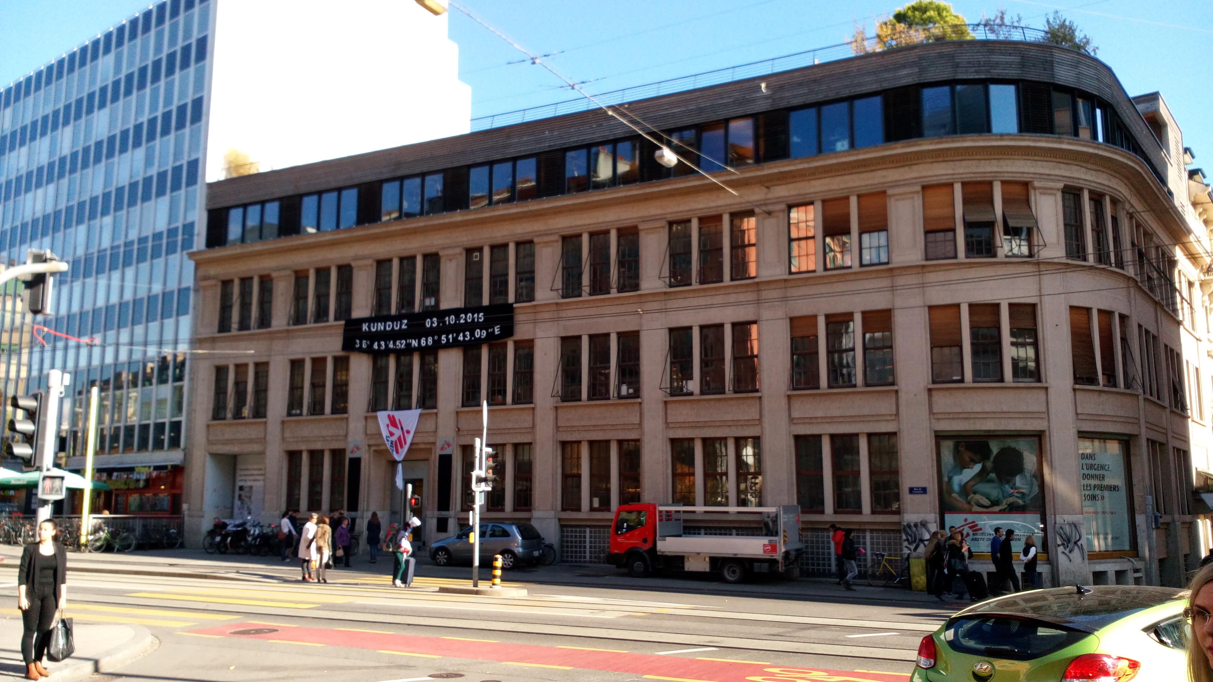 Sighting of the MSF office in Geneva (Lausanne street) with a banner reminding the US bombing of the Kunduz hospiuatl on Oct. 3rd 2015 and stating its latitude and longitude. The MSF flag is also seen half mast.